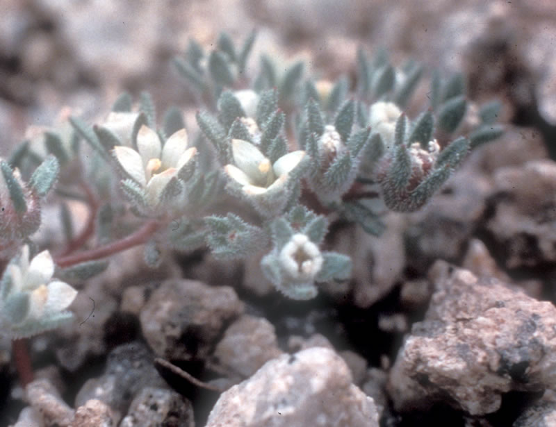 Nemacladus twisselmannii USFS photo